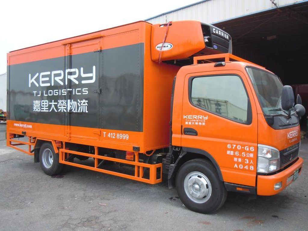 A truck of Kerry TJ Logistics.中文（台灣）: 嘉里大榮物流的三菱堅達冷凍物流車670-G6。